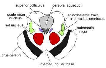 This is a section in the transverse plane through the human midbrain at the level of the superior colliculus. The front of the head is near the bottom of the picture.